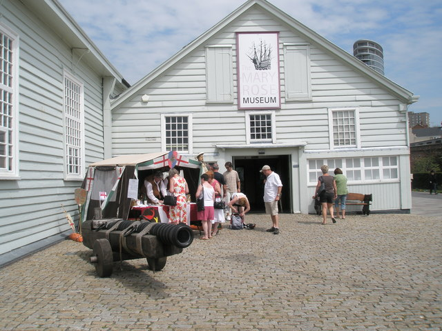 Cannon outside the Mary Rose Museum